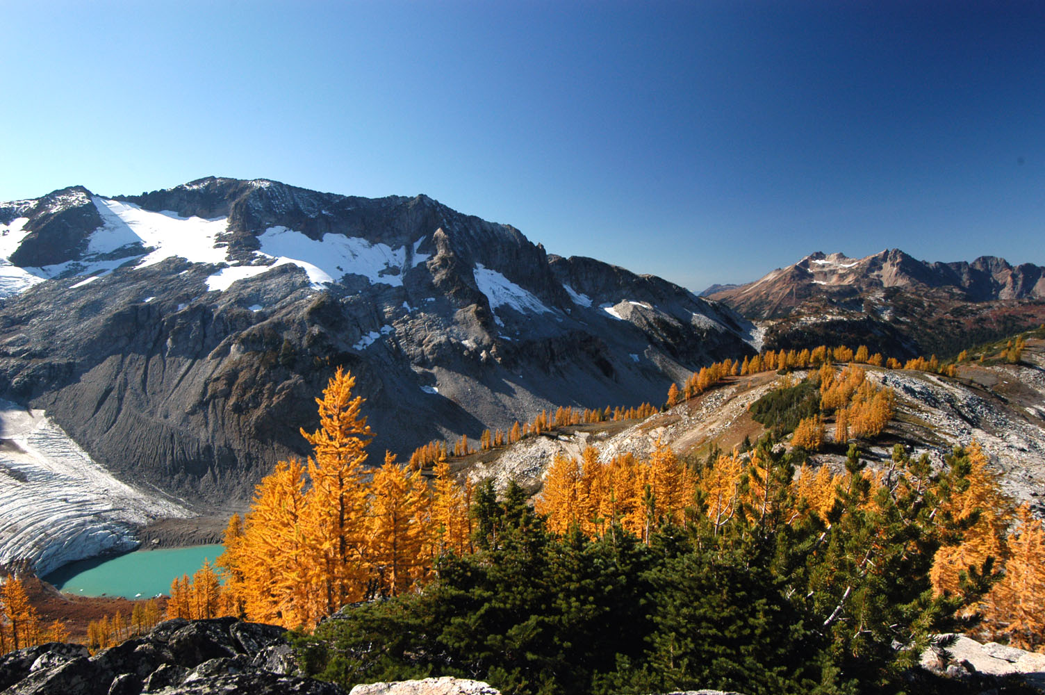 Lyman Glacier below Chiwawa Mountain (8459 feet, 2578 m) from about 1 km north of Spider Gap (USGS Holden) in Glacier Peak Wilderness; Larix lyallii (golden), Abies lasiocarpa (green, foreground center) and Pinus albicaulis (green, foreground right) (Washington)DSC_0074